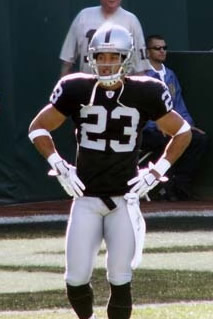 Chris Carr